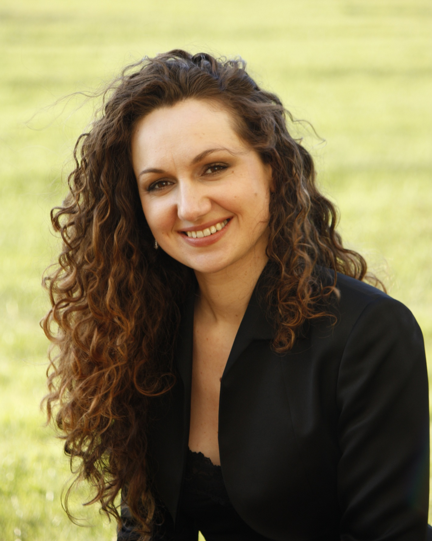 Ina Zdorovetchi